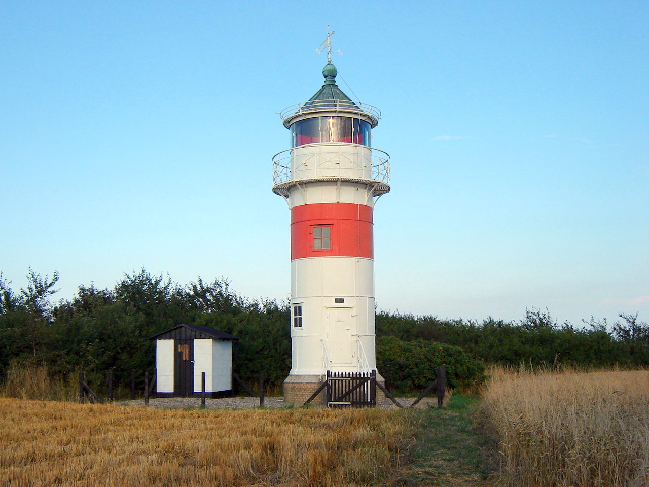 Lighthouse Gammel Pol